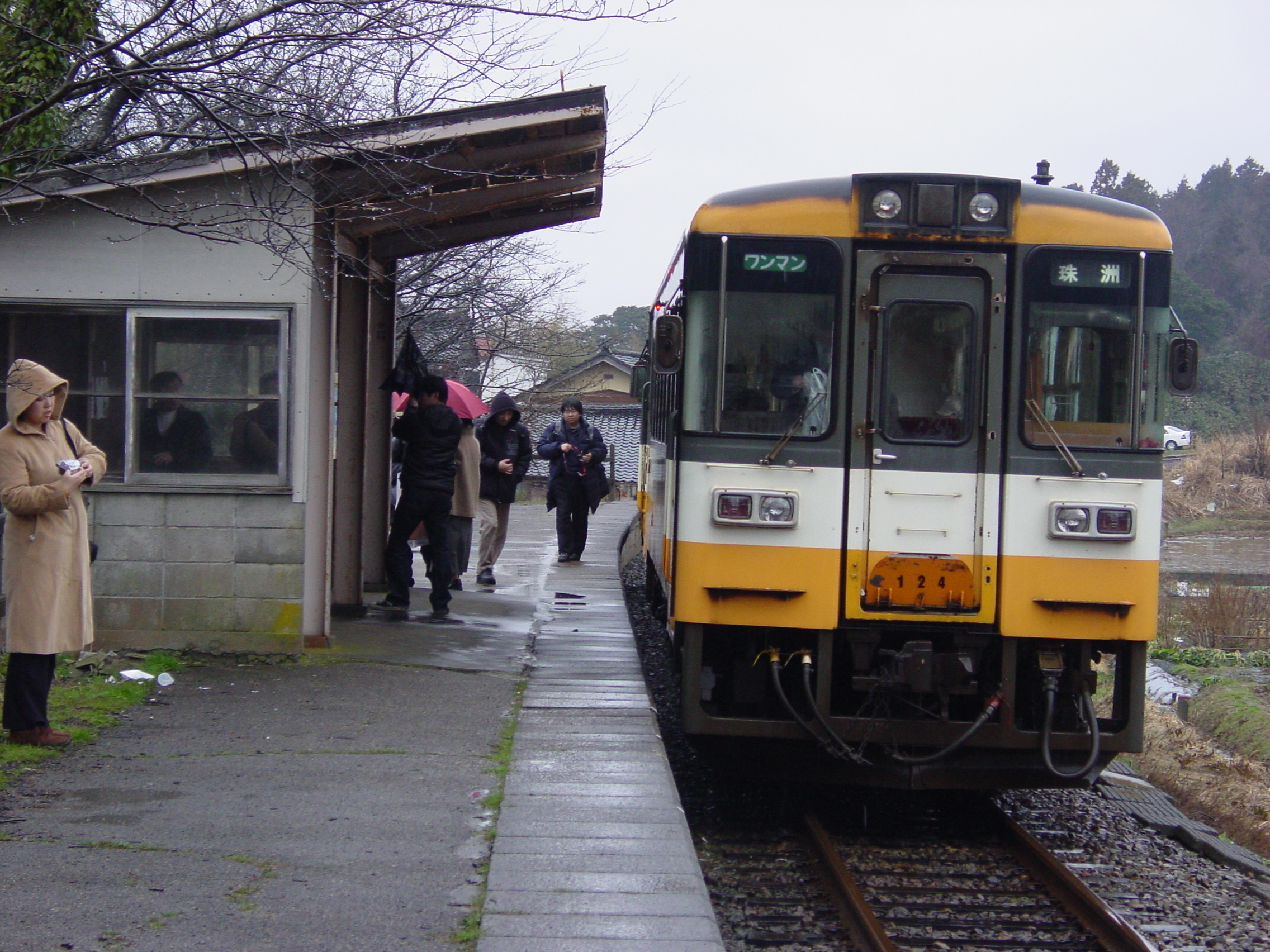 Takojima station of Noto Railway Company, which was disused at 1 April 2005.